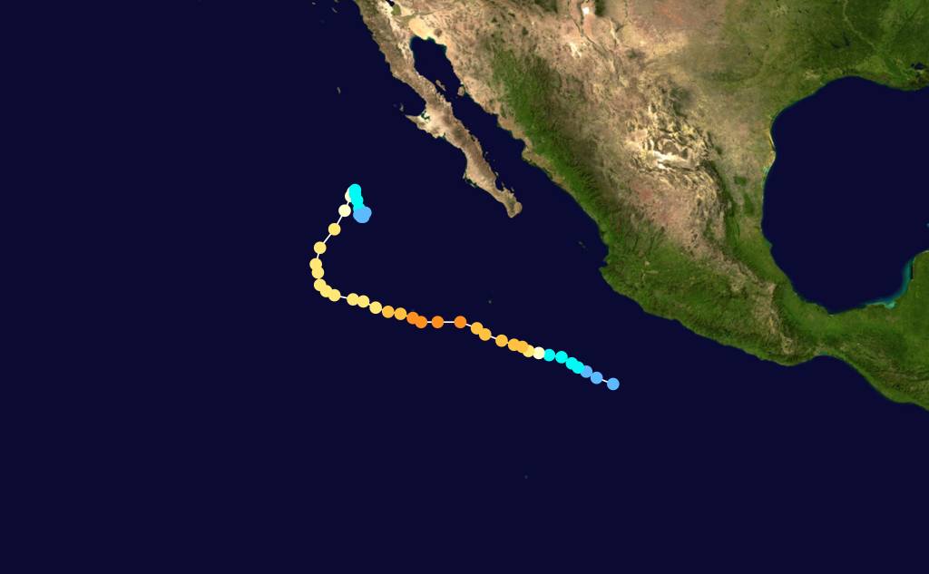 Hurricane Juliette (1995) track. Uses the color scheme from the Saffir-Simpson Hurricane Scale.